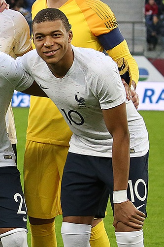 Kylian Mbappe lining up for France on 27 March 2018.